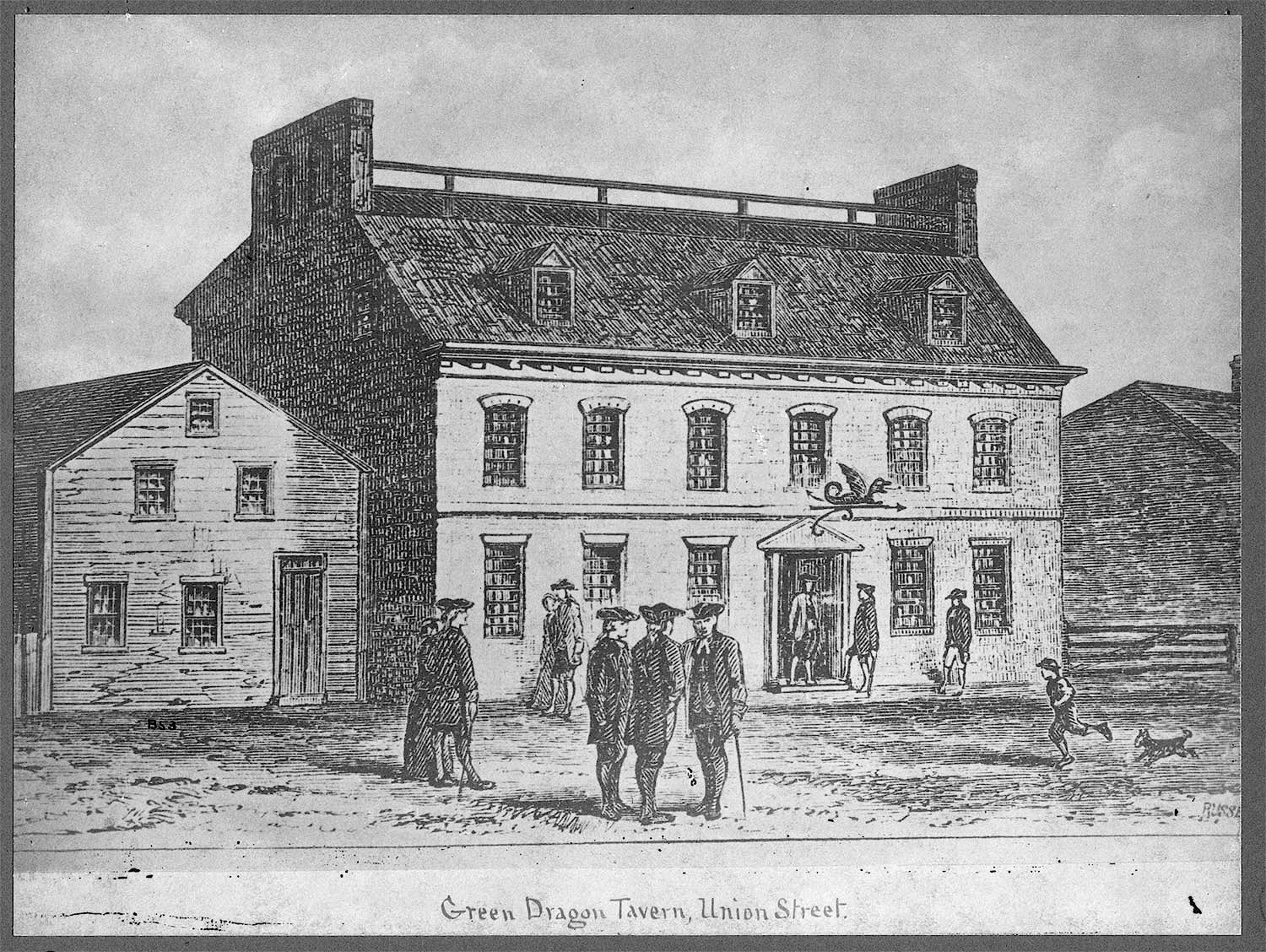 Green Dragon Tavern, Union Street. Engraver: Russell. 1898 (approximate). Copy photograph from engraving by Russell of the tavern in the North End where the Sons of Liberty planned the Boston Tea Party.